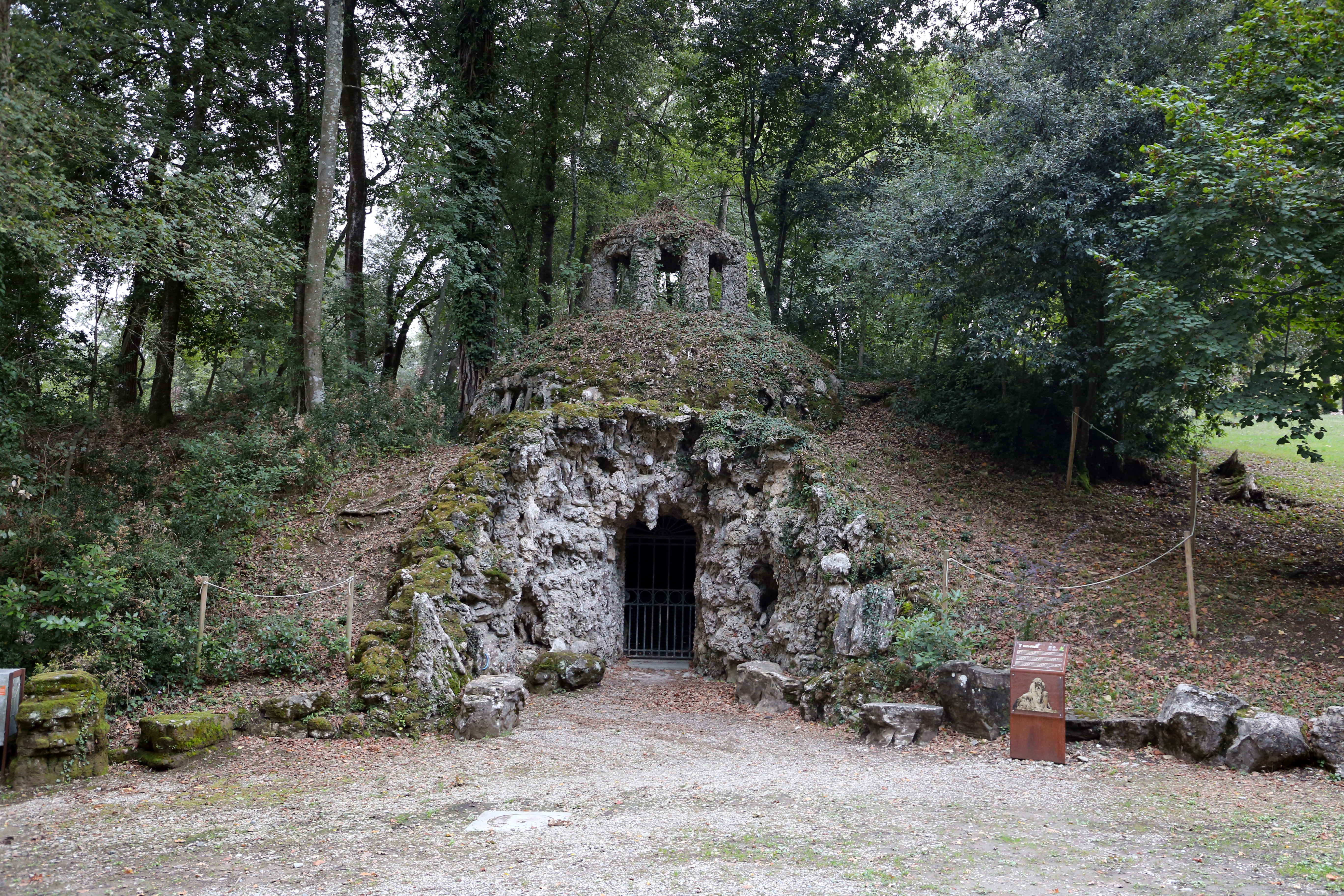 Villa Demidoff (Pratolino) - Park